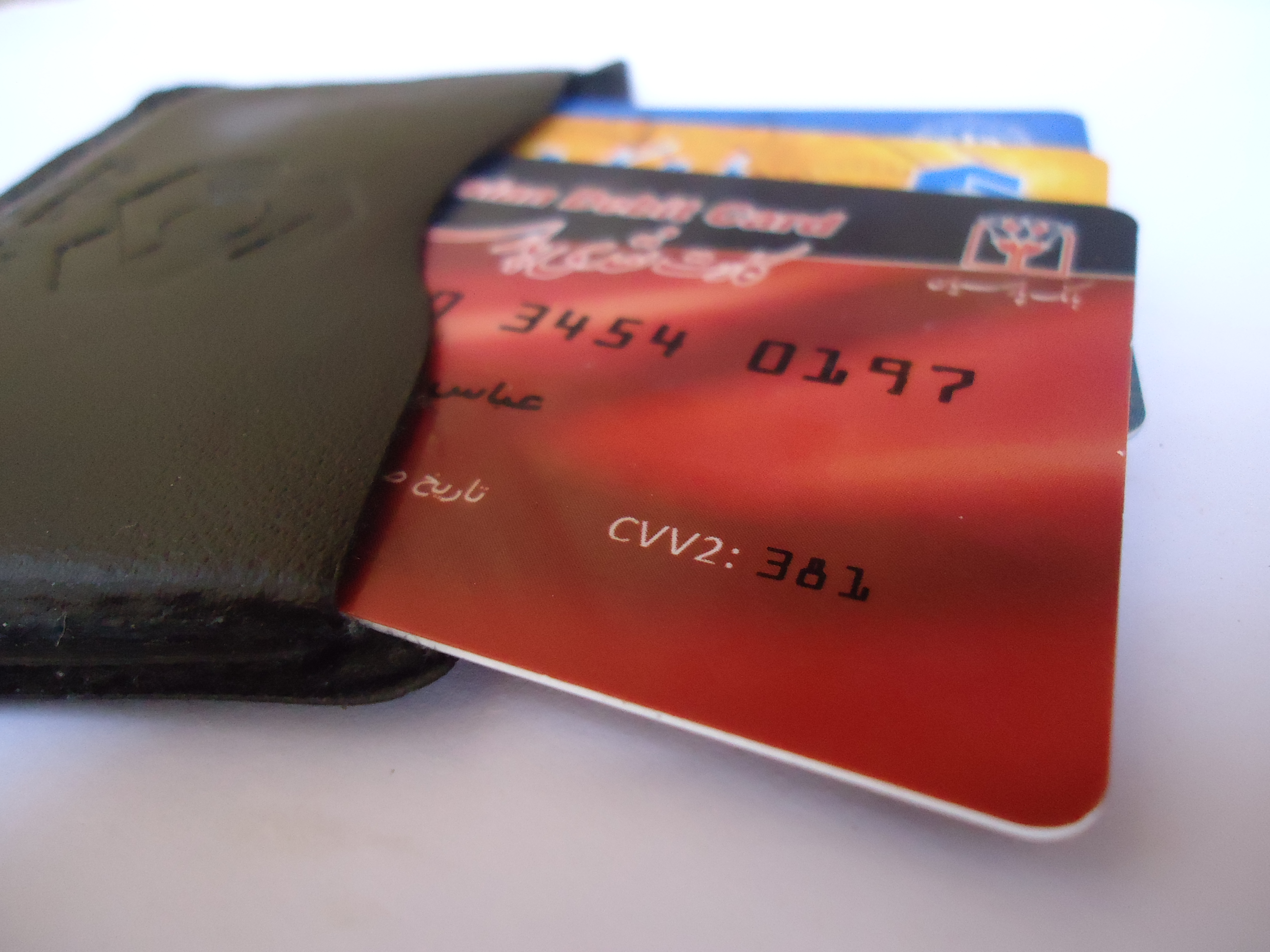 Debit Card